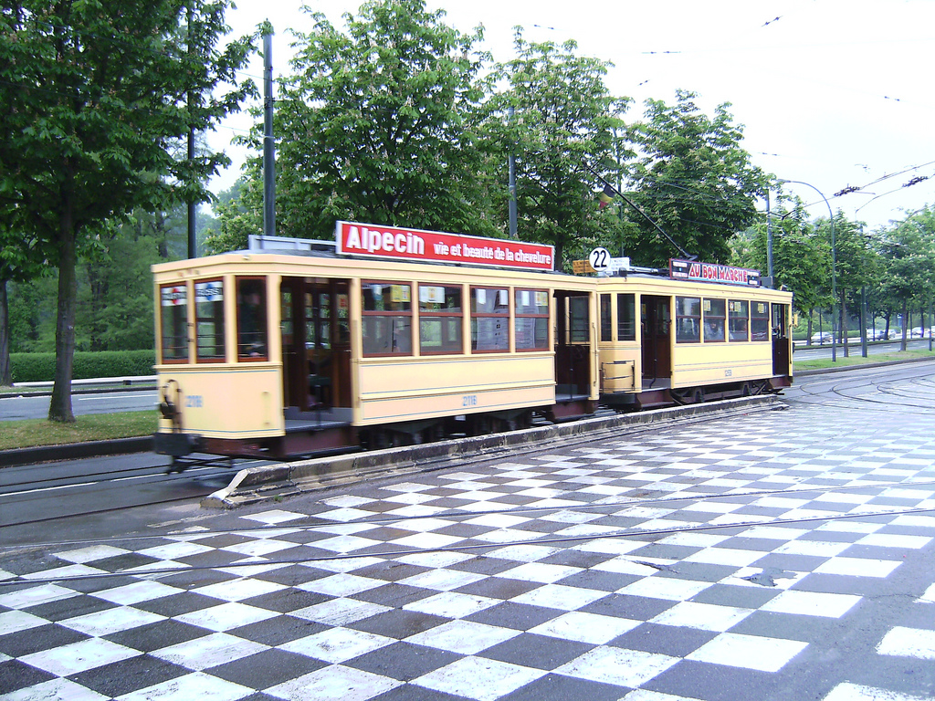 Although tram museum of Brussels is closed for renovation now (unless you ask politely to visit :), the heritage tramway runs every weekend. The starting point is the tramway museum. To get there, take metro to Montgomery station and then tram line 44 or 39 to Trammuseum/Musée du tram.